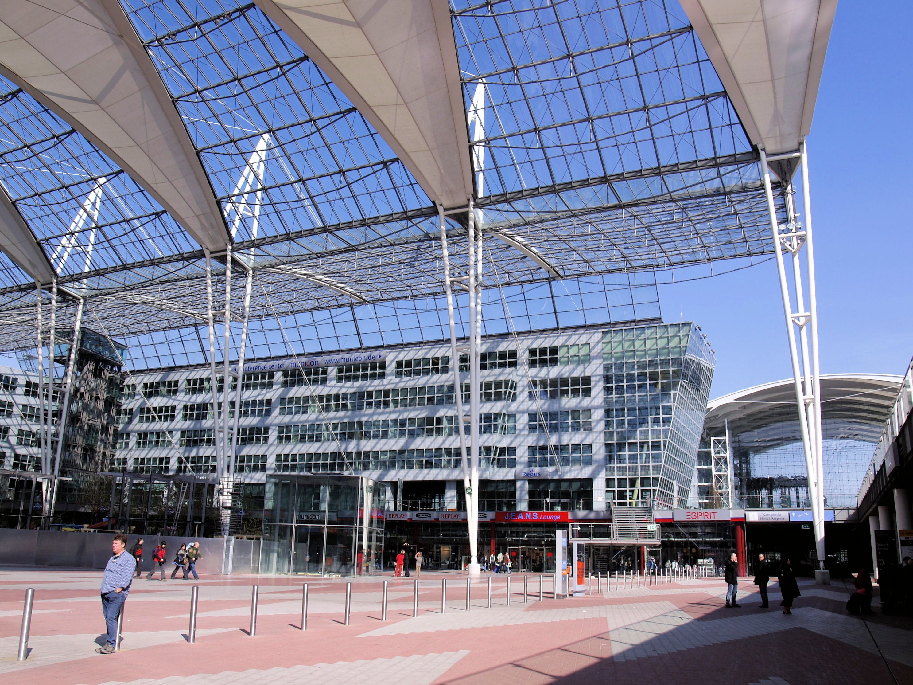 muc airport terminal building